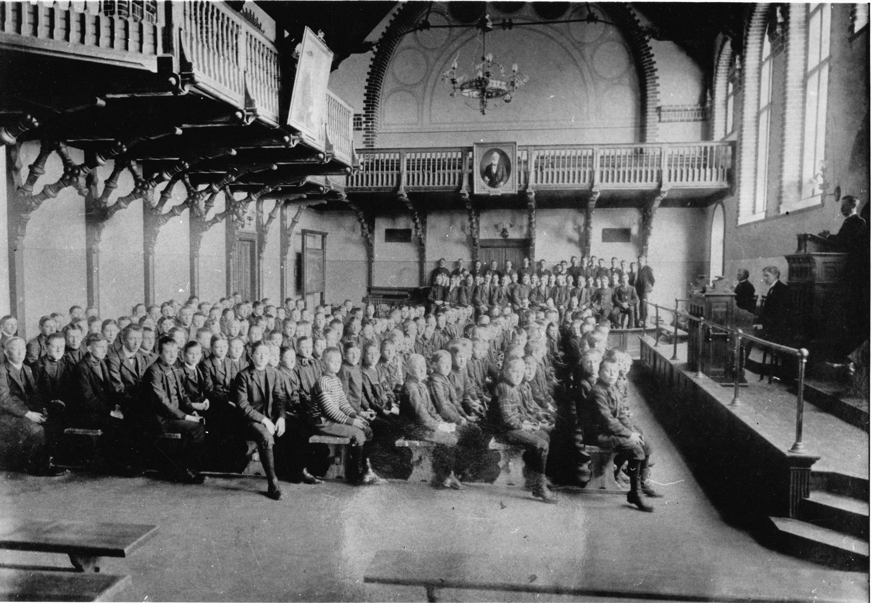 Morning prayer in the old grammar school auditorium